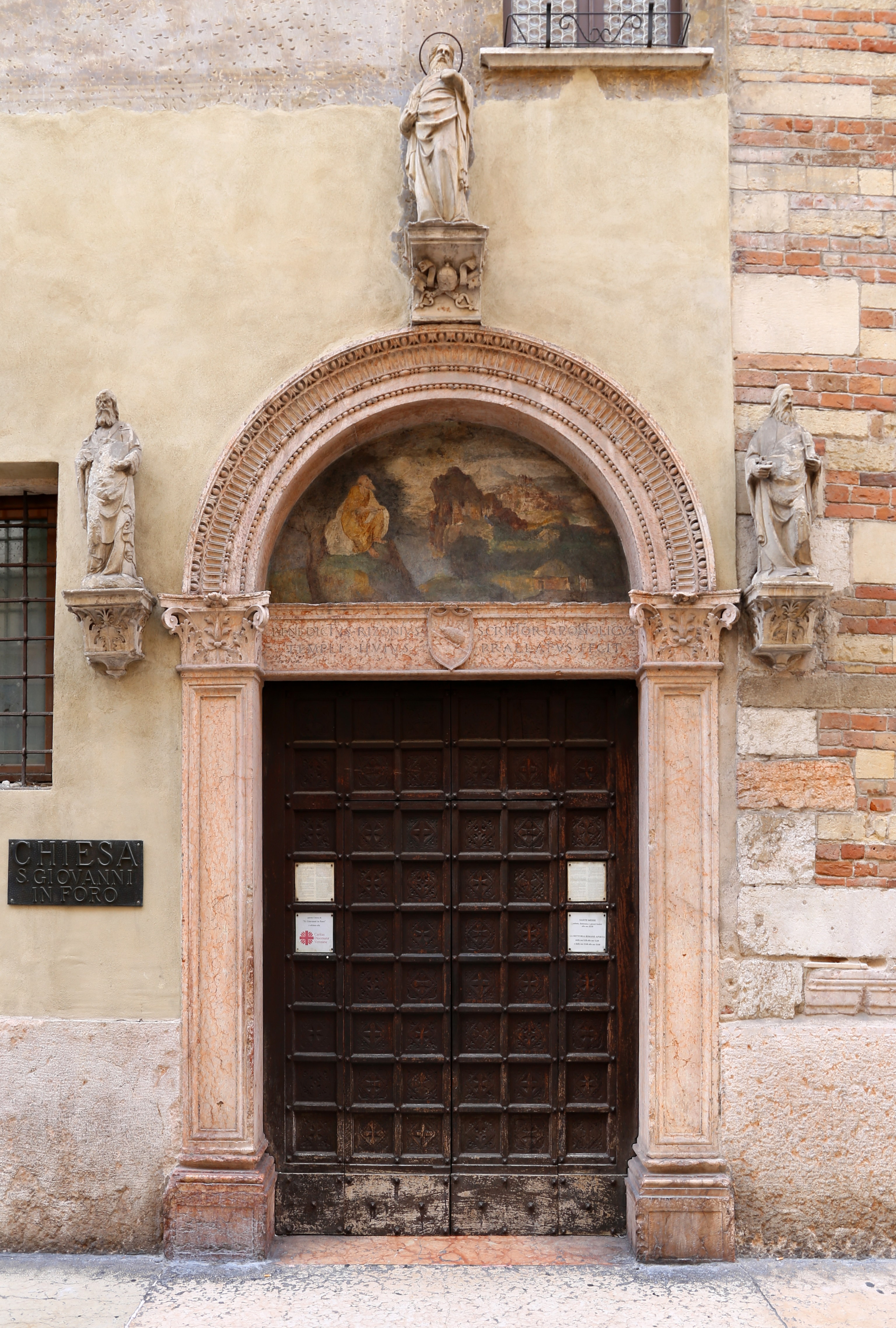 Churches in Verona